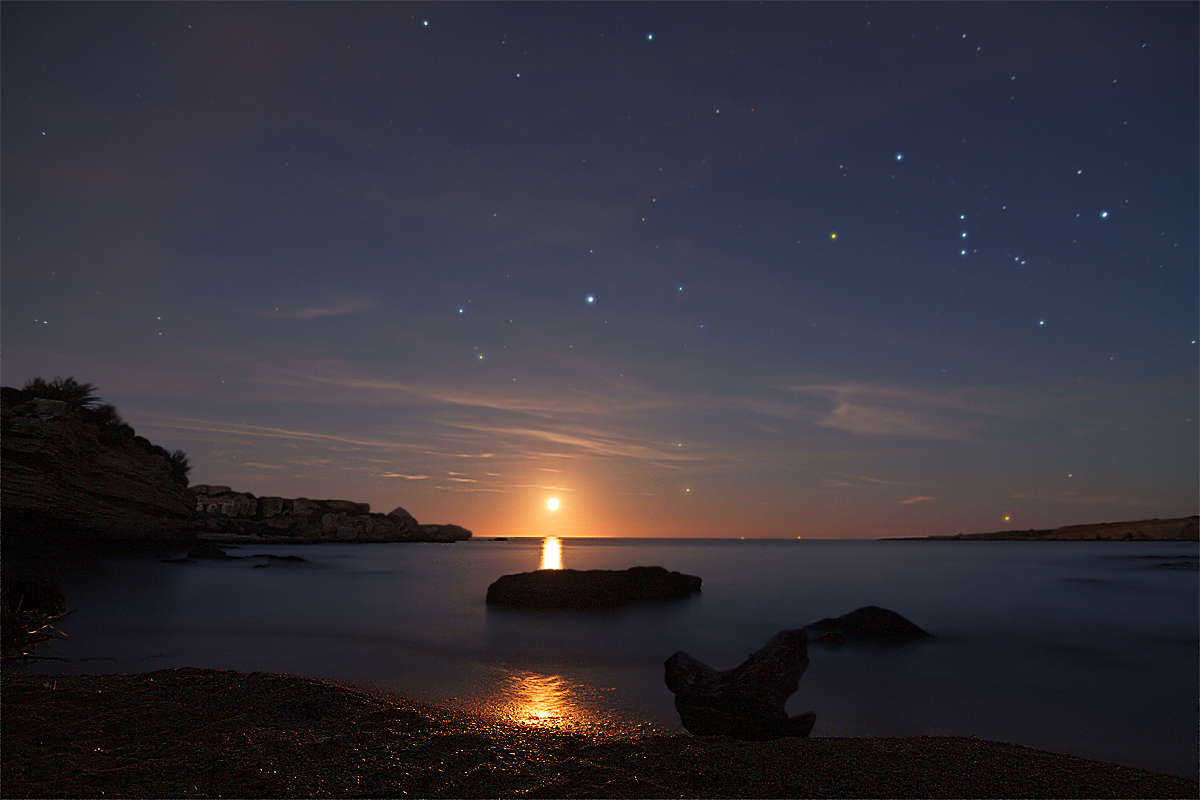 Moon dawn at Punta Mola Plemmirio.The idea was to find the moment when the moon was rising full of reddish hues in a blue sky (blue hour). The result is a mix of cold and warm colors. The presence of Orion constellation is a plus!